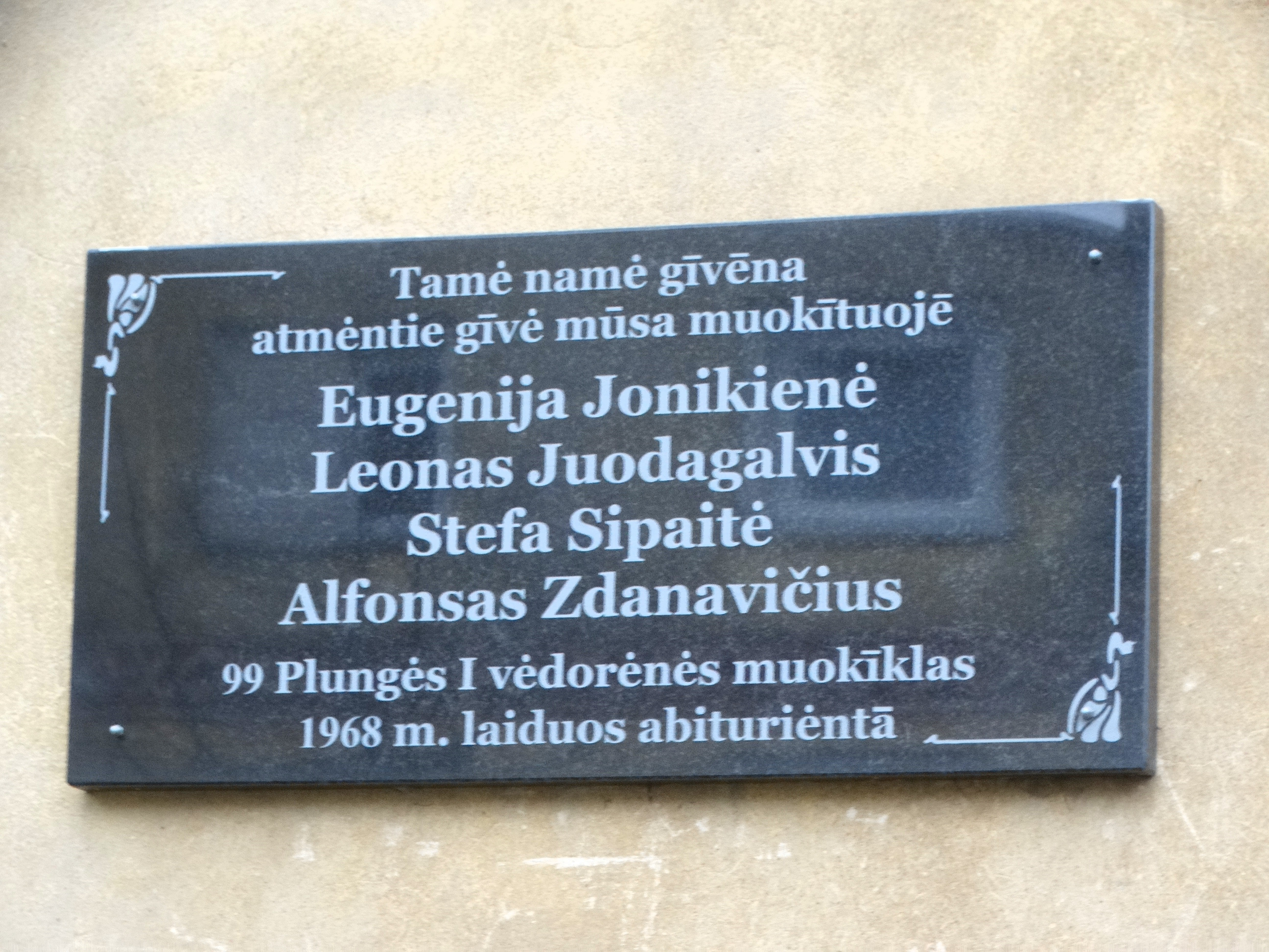 Memorial plaque (in Samogitian dialect) to the teachers in Plungė, Lithuania